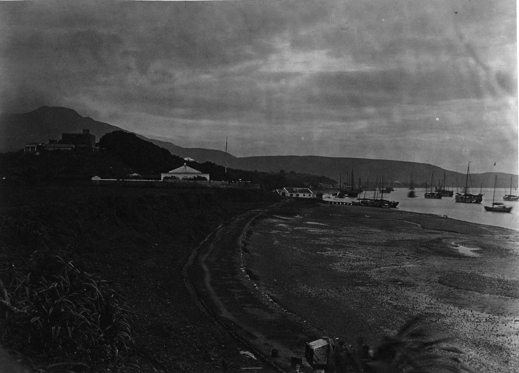 Photograph in From Afong, Photographer.